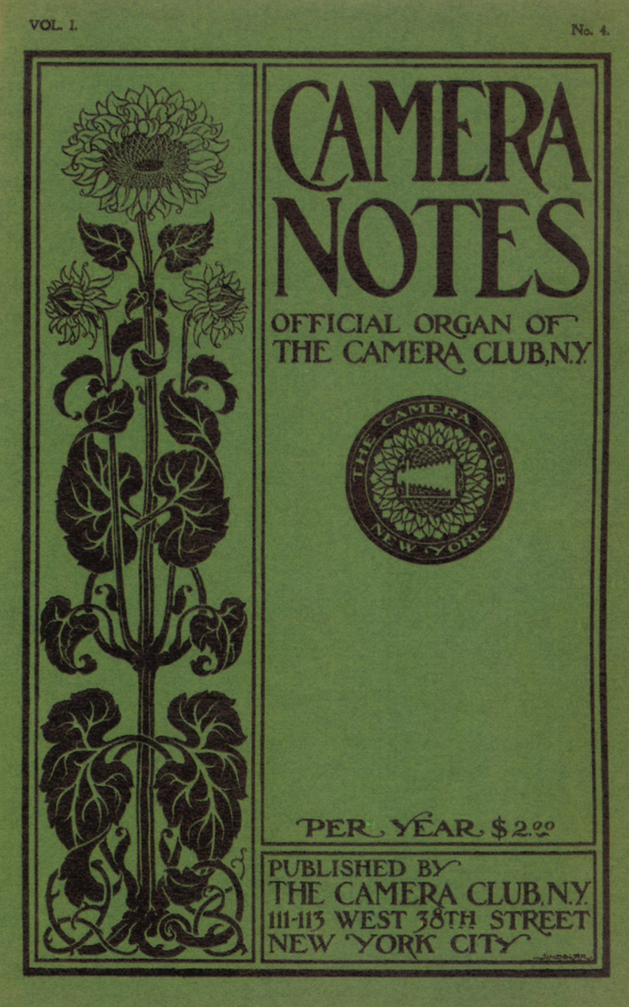 Cover of Camera Notes, Vol 1 No 4, April 1898